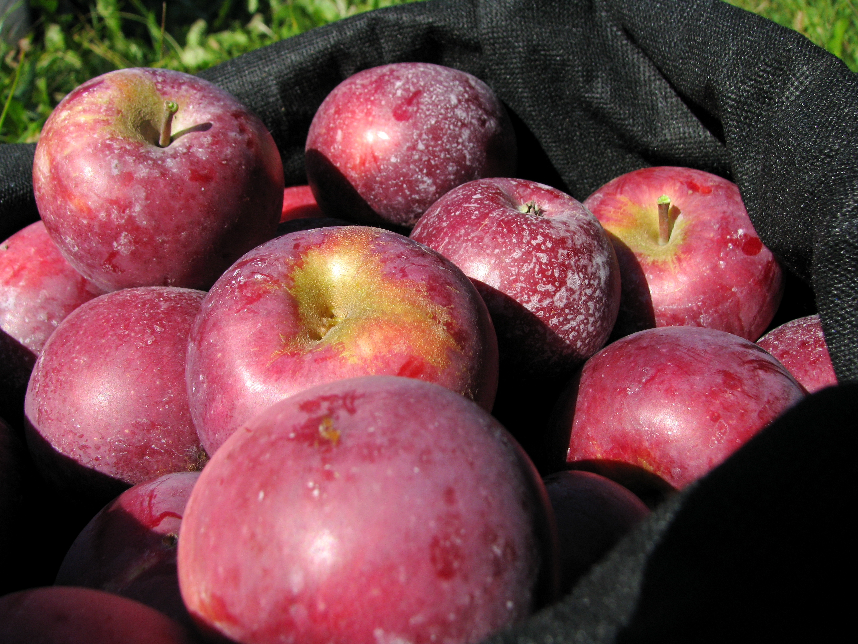 You could bottle it and call it "Memories of Autumn", apple picking in Ontario in October. Fresh and tasty and a good afternoon in the sunshine with friends.